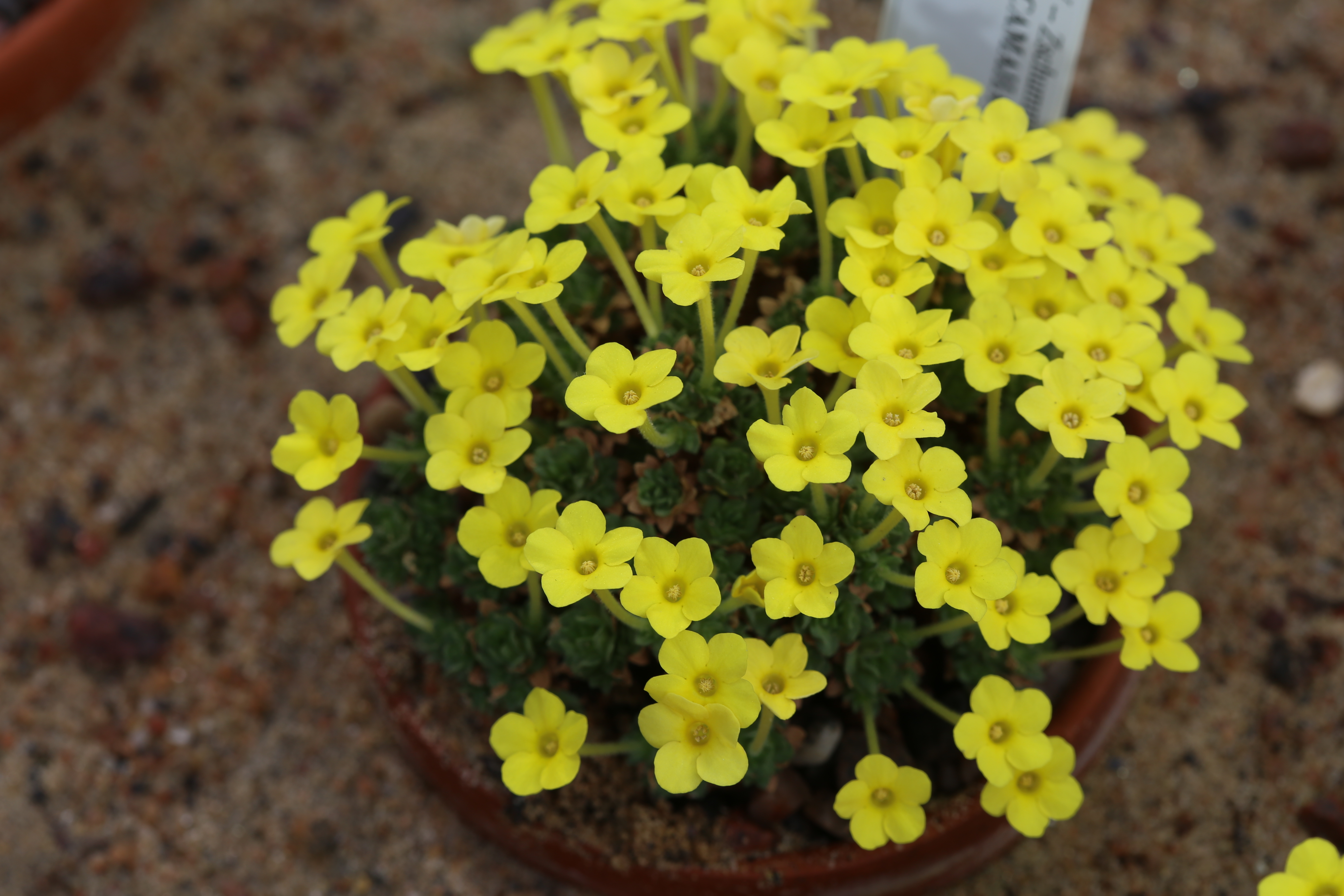 Dionysia tacamahaca at Gothenburg Botanical Garden 2015. Plant id: 2011-2420 p W -- Zschummel